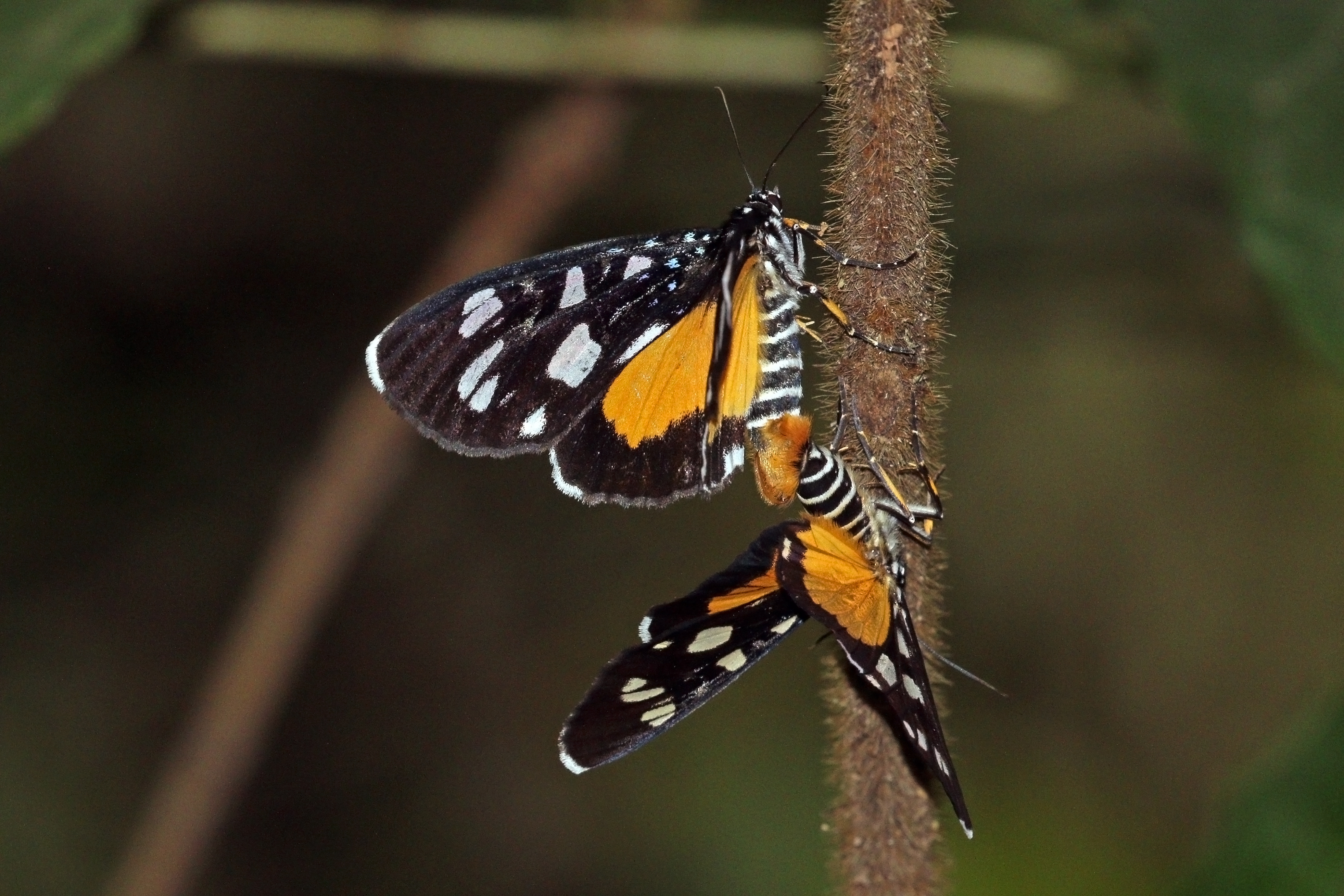 False tiger moth (Heraclia aemulatrix) mating, Bobiri Forest, Ghana